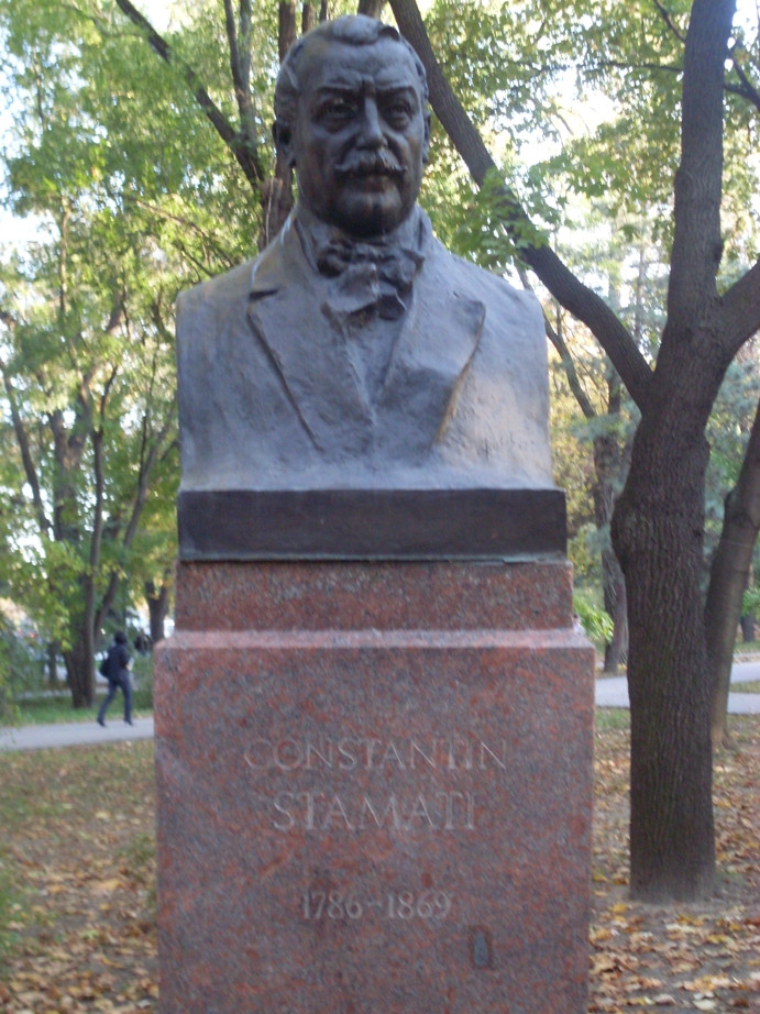 Bust of Constantin Stamati in the Alley of Classics of Chişinău.